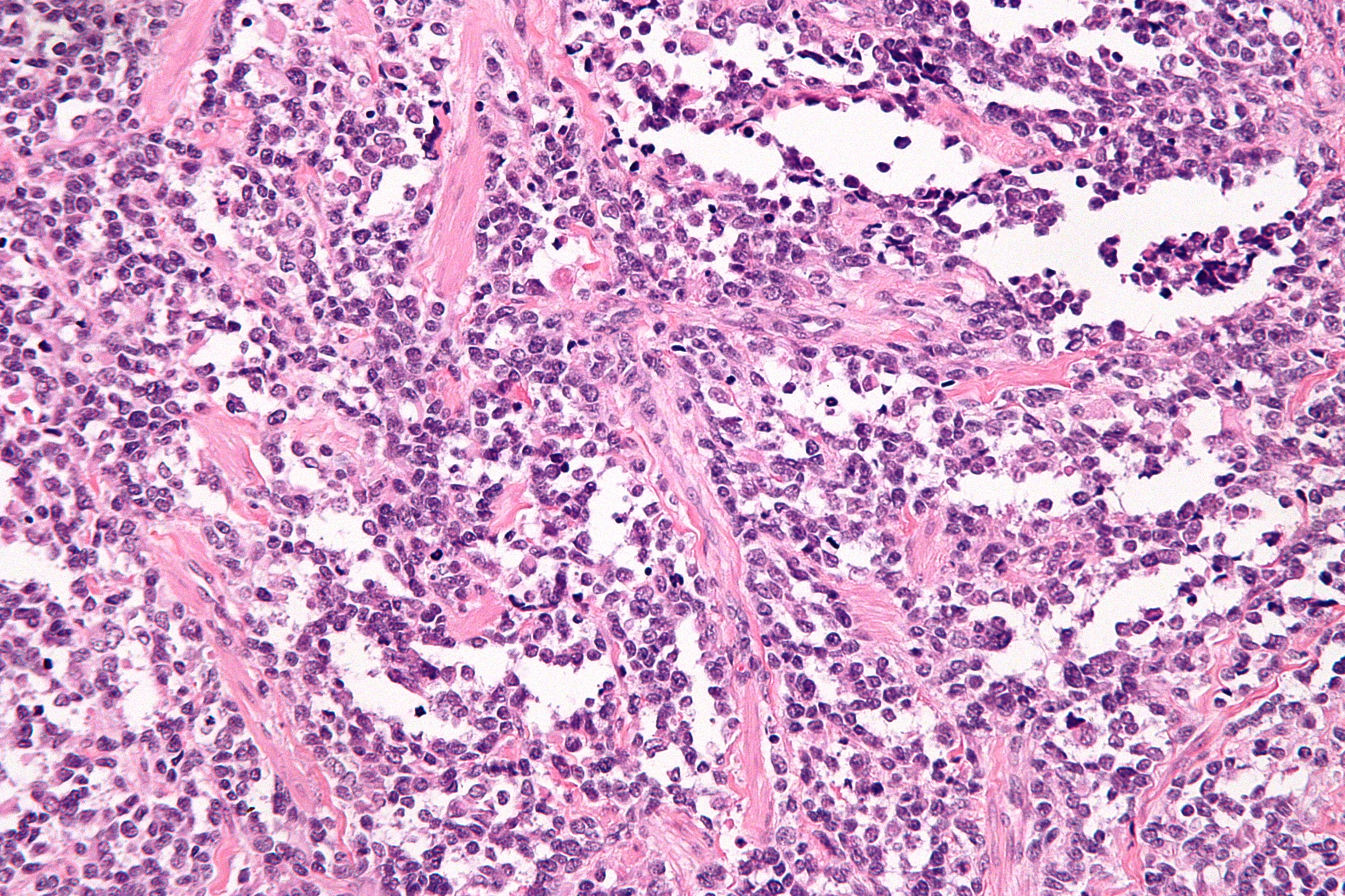 High magnification micrograph of an alveolar rhabdomyosarcoma, H&E stain. Related images Intermed. mag. High mag. Very high mag.